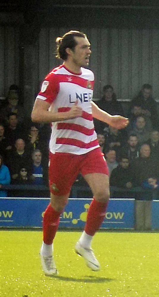 John Marquis playing for Doncaster. Wimbledon 2 v 0 Doncaster, 2019